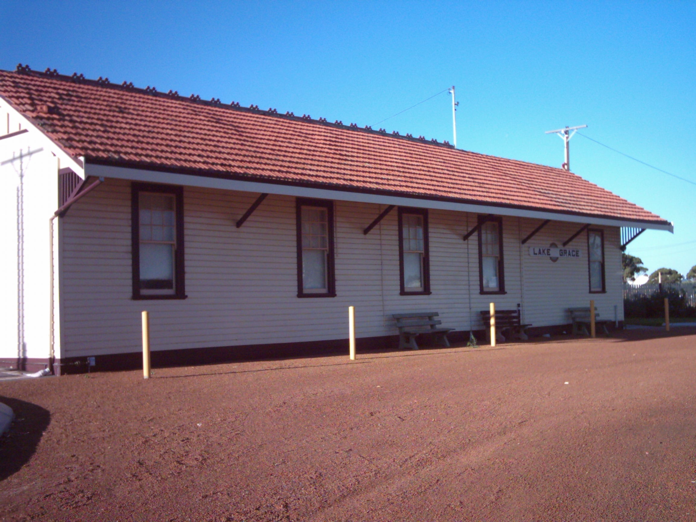 Lake Grace train station, Lake Grace WA